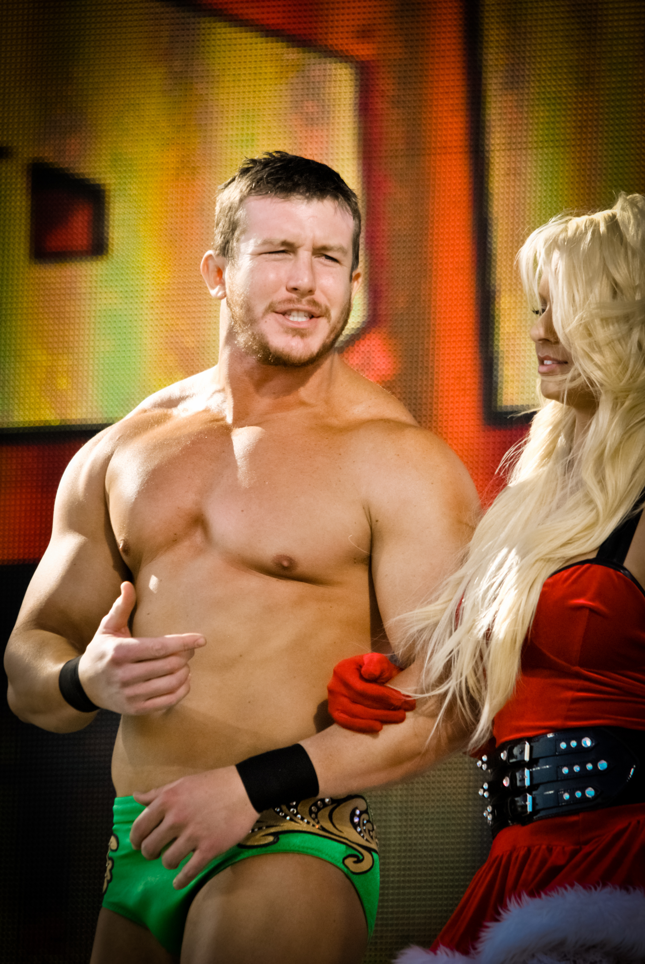 The Million Dollar Couple - Ted DiBiase (left) and Maryse (right) in Fort Hood, Texas on December 11, 2010, for WWE's Tribute to the Troops show.